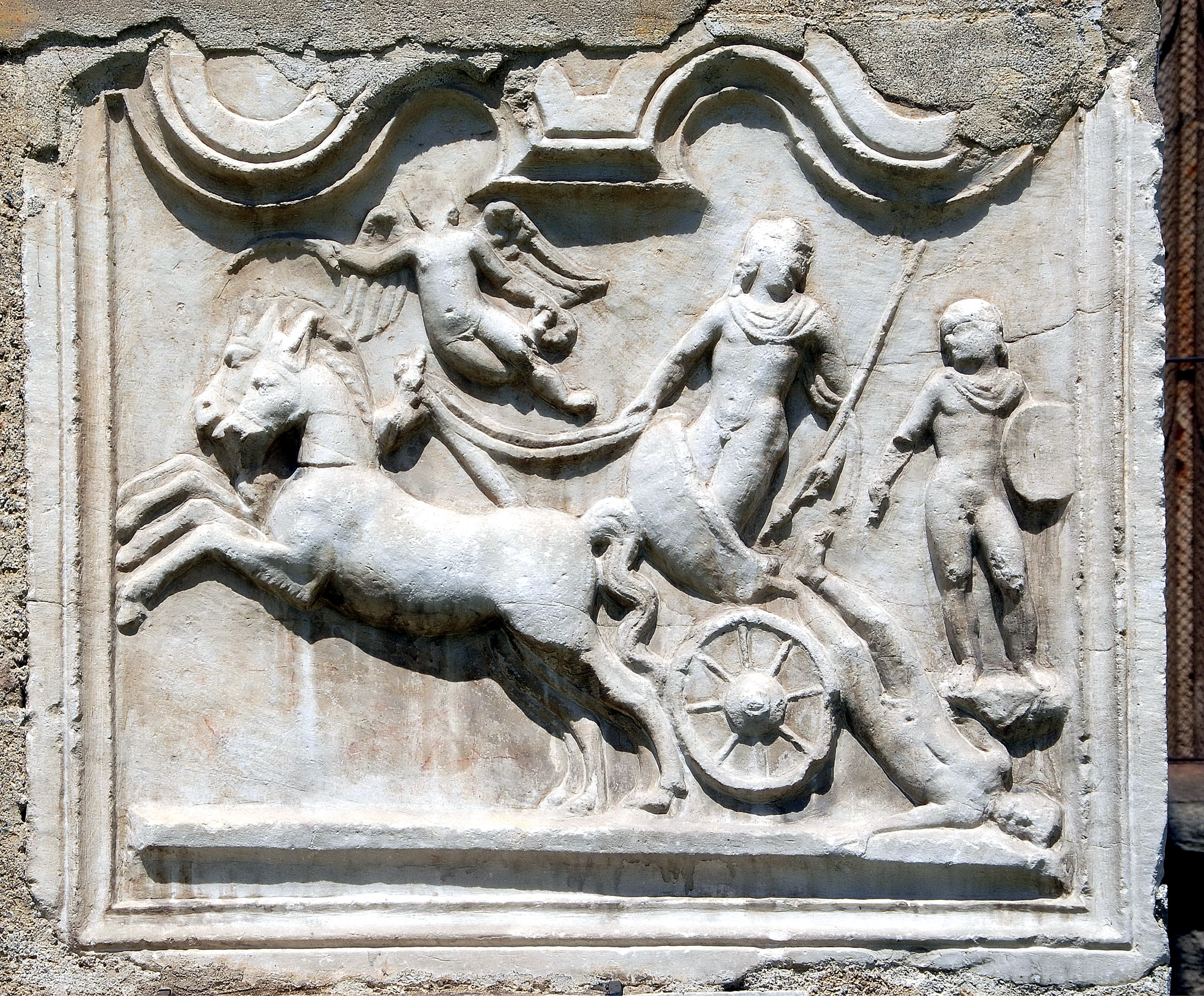 Tombstone from Virunum II (showing Achilles with killed Hector) on the south-wall of the pilgrimage church "Assumption Day" in Maria Saal, market town Maria Saal, district Klagenfurt Land, Carinthia / Austria / EU